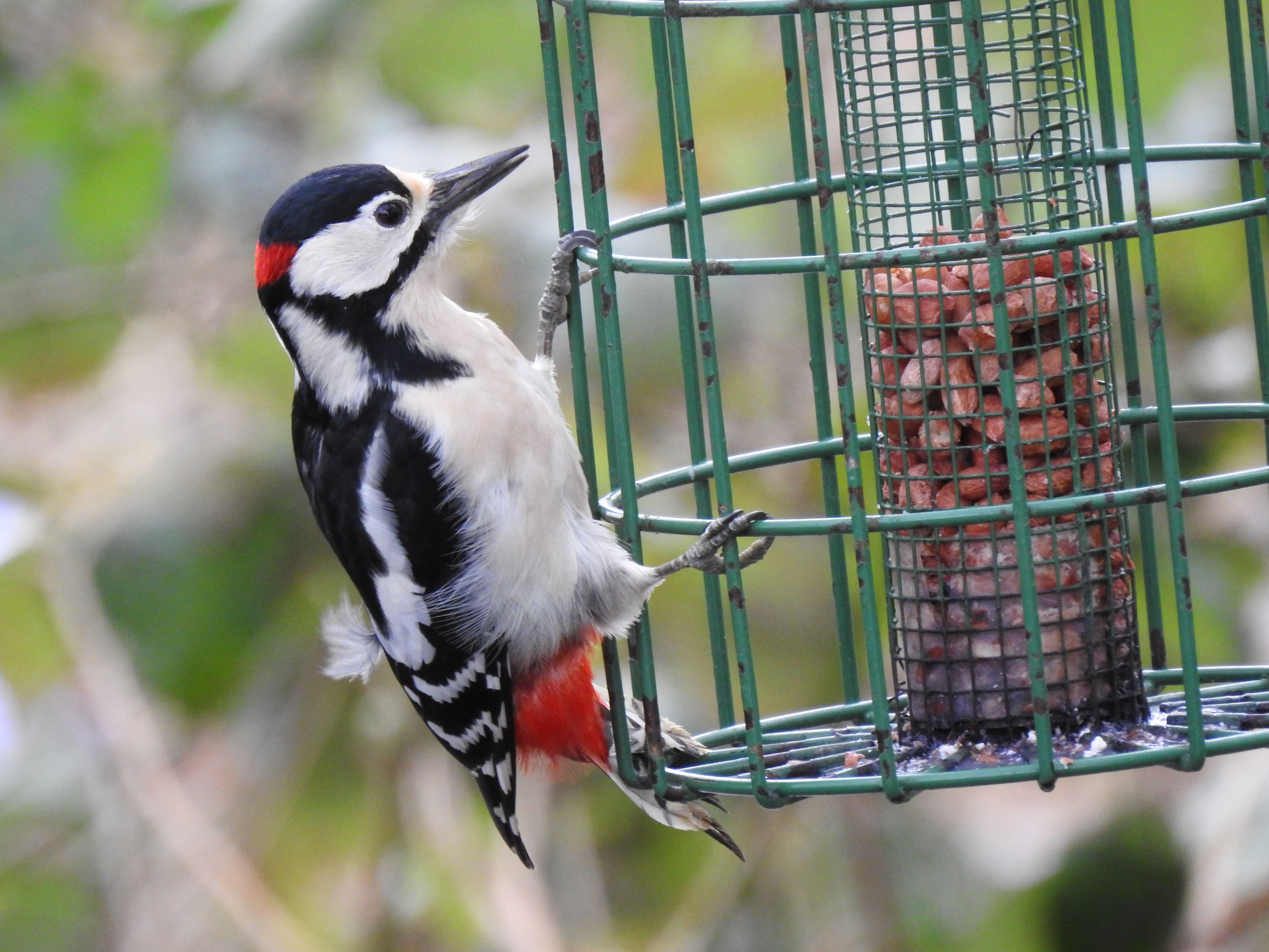 A male of the species in the United Kingdom